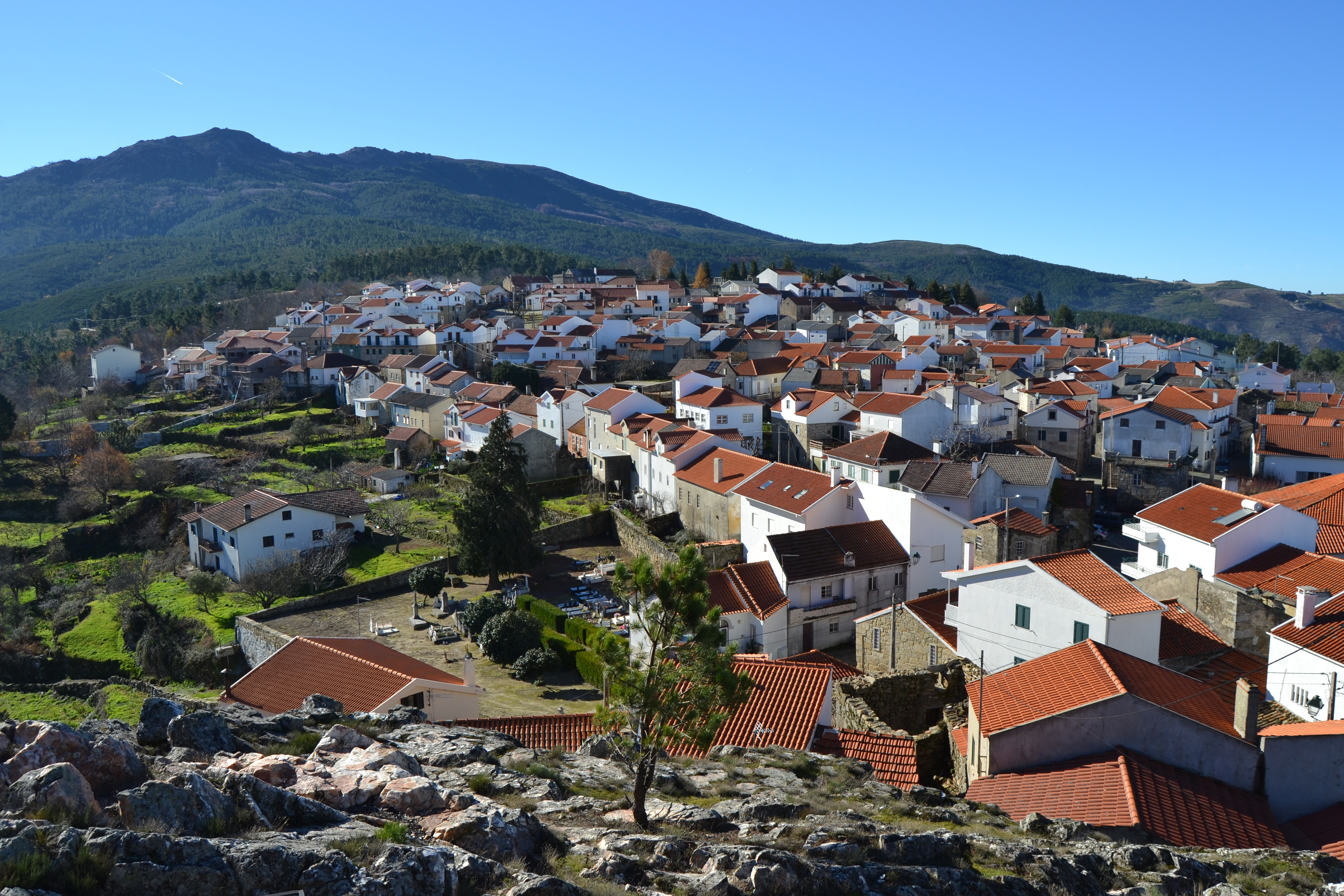 This is a photography of a Site of Community Importance in Portugal with the ID: PTCON0014. Natura2000 entry, EEA entry